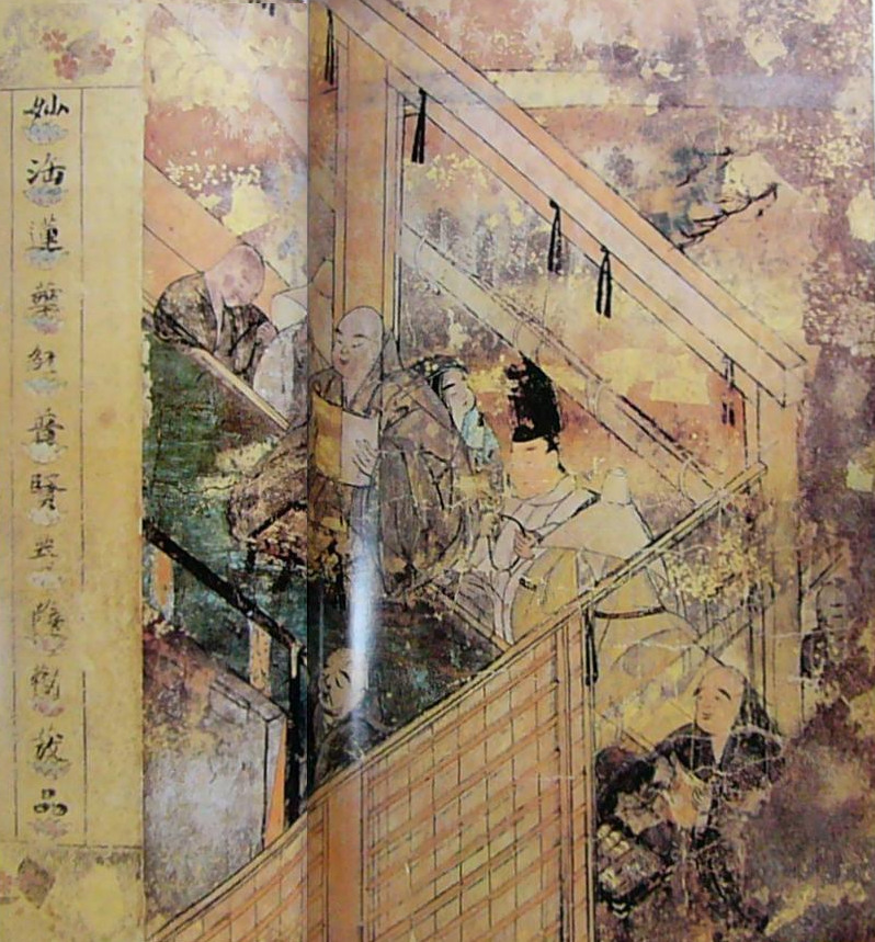 Opeming of Fugen kanbotsubon, Lotus pedestal character Lotus Sutra, One handscroll. Ink and color on paper, Heian Period, 11-12th century. Yamatobunkakan, Nara